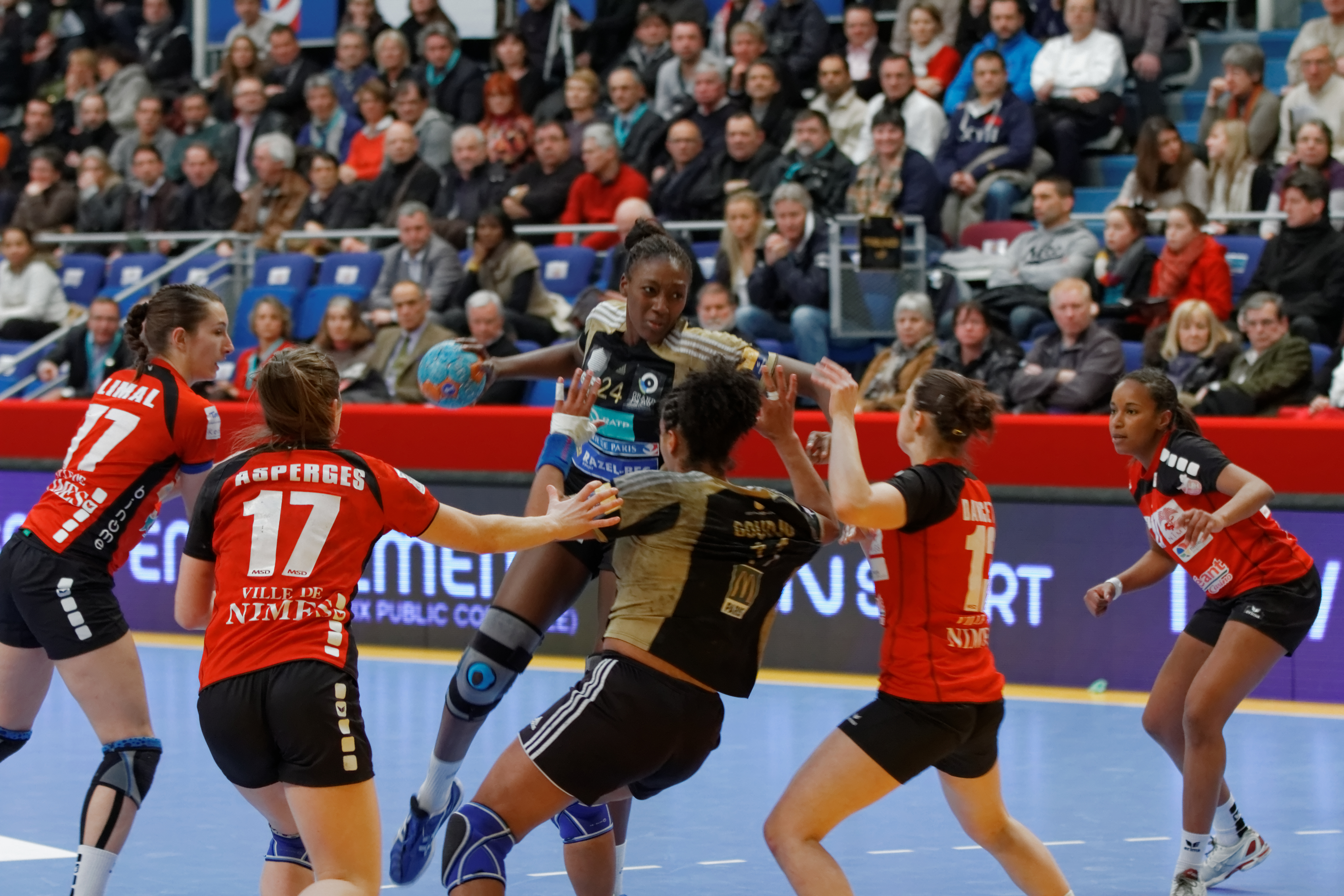 Final of the Women's handball French cup 2013. Handball Cercle Nîmes vs Issy Paris Hand, stadium Pierre-de-Coubertin at Paris.